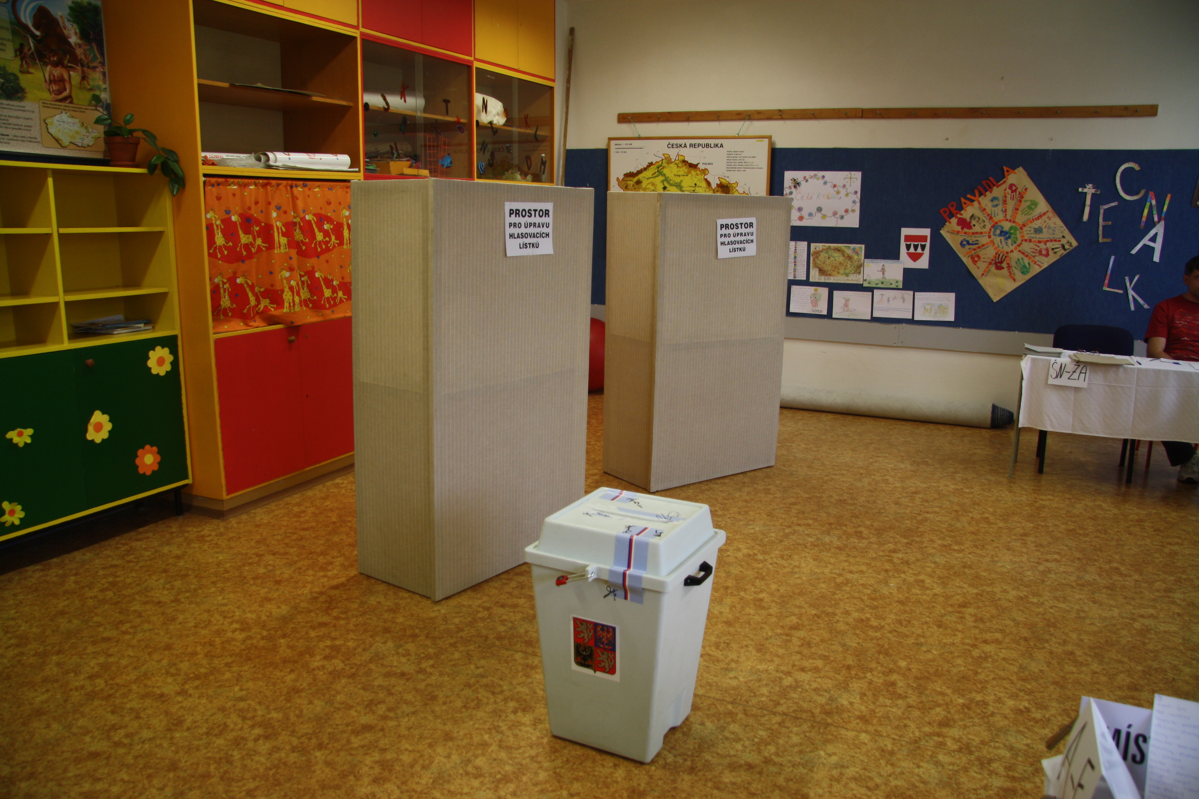 Polling room for municipal votes in Benešova elementary school in Třebíč.